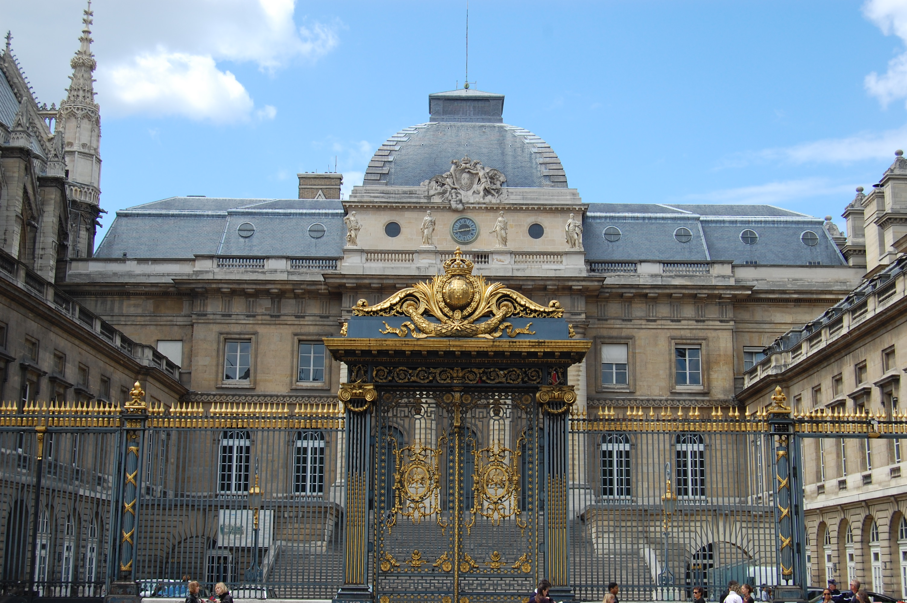 The Palais de Justice in Paris, with gates of the cour d'honneur in front.